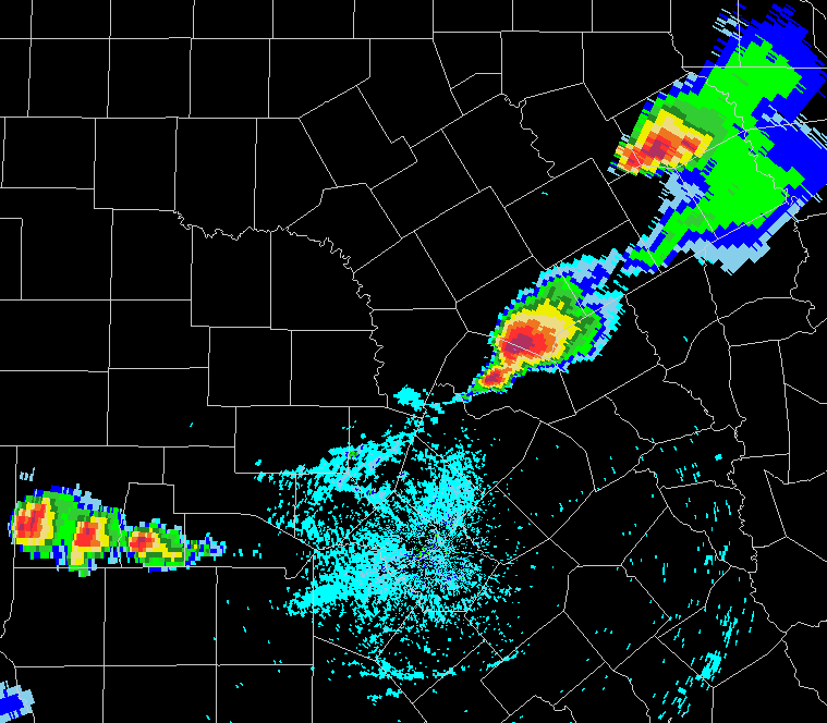 Radar from the KEWX WSR-88D radar station in New Braunfels, Texas, at 2048 UTC on May 27, 1997, showing several storms tracking across Central Texas. One of these produced the notorious F-5 tornado that tracked through areas of Jarrell, Texas.